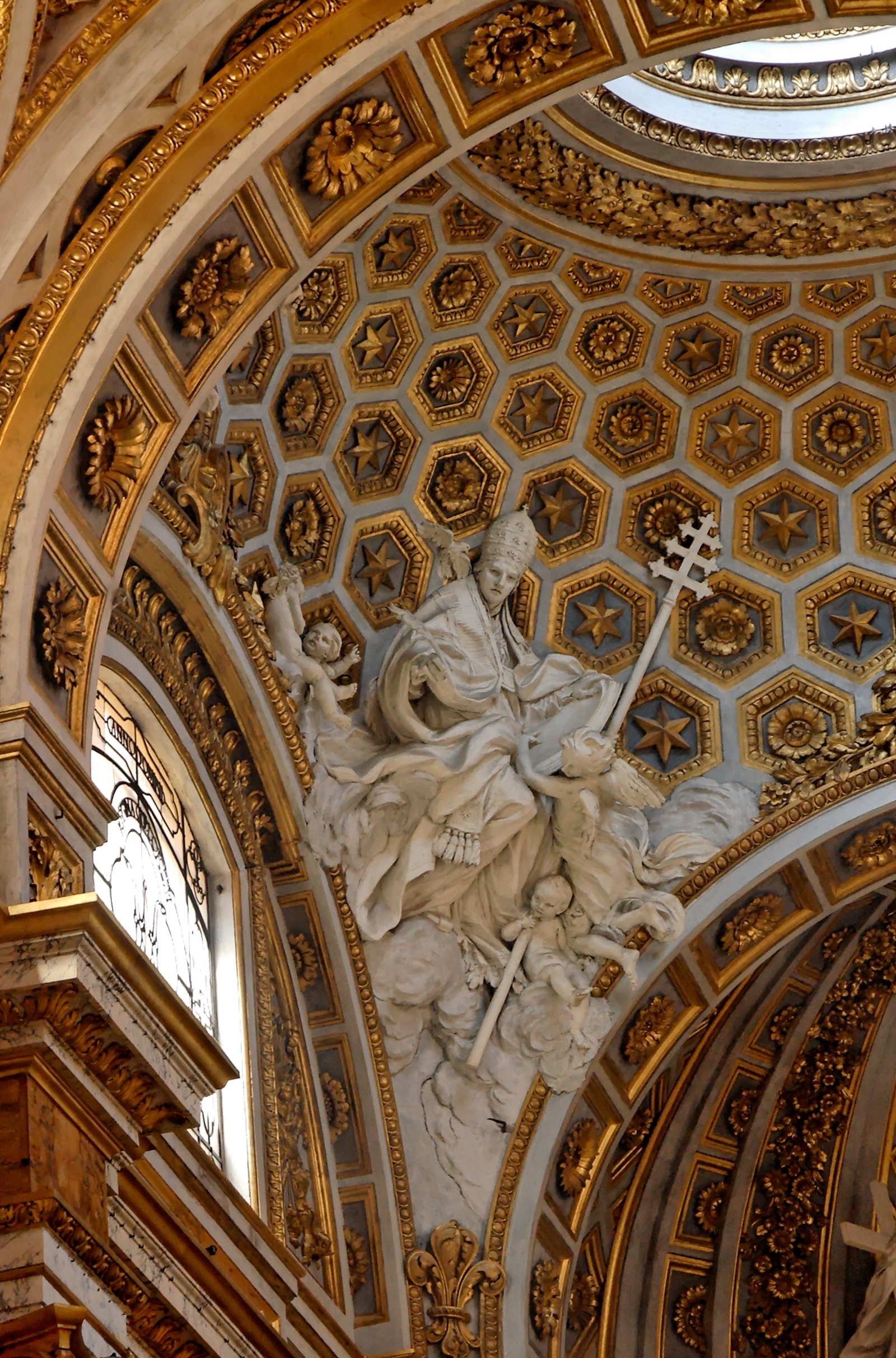 Cupola pendant from the church San Luigi dei Francesi (late 16th century) in Rome.